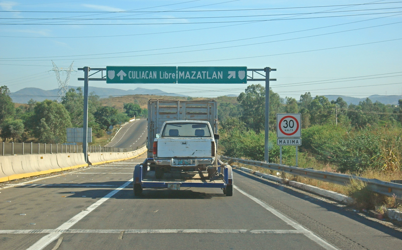 Southbound Mexican Federal Highway 15 near Culiacan, Sinaloa.